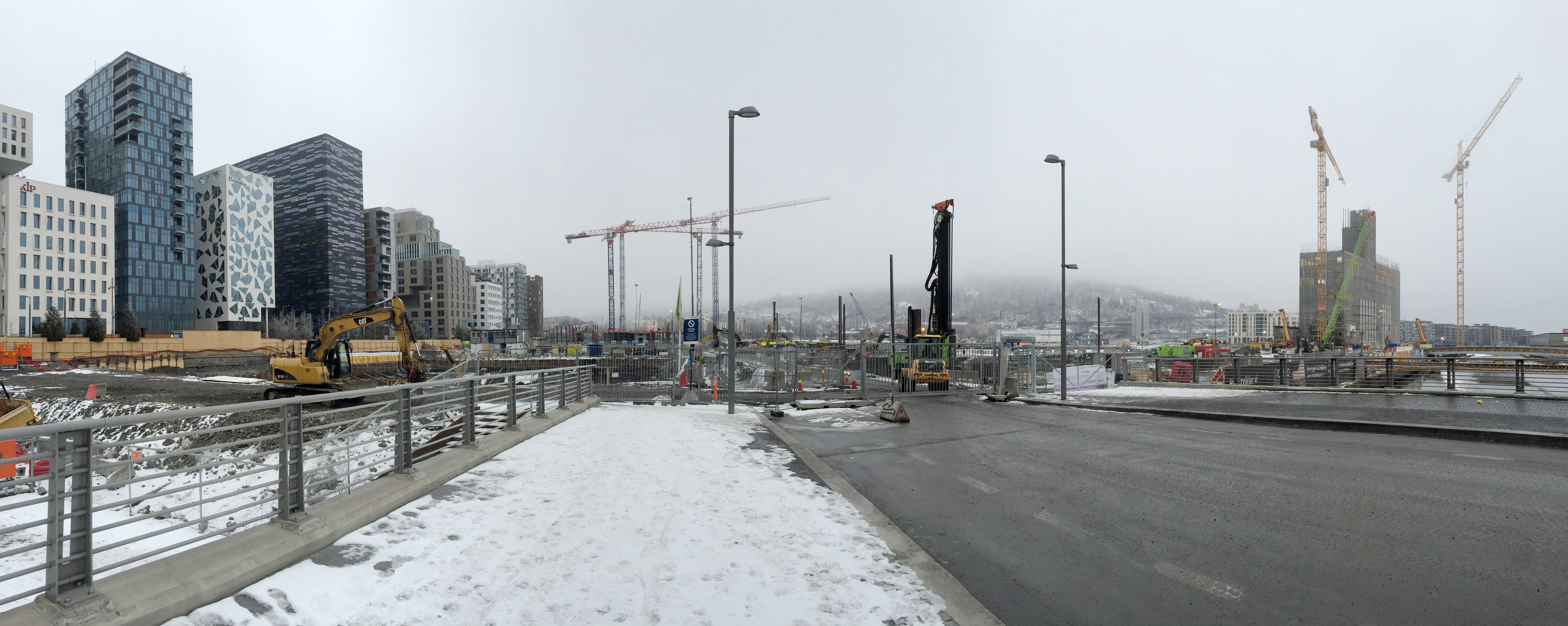 Urban development in the Bjørvika and Sørenga area in Oslo, with Barcode buildings to the left and the new Munch Museum to the right.